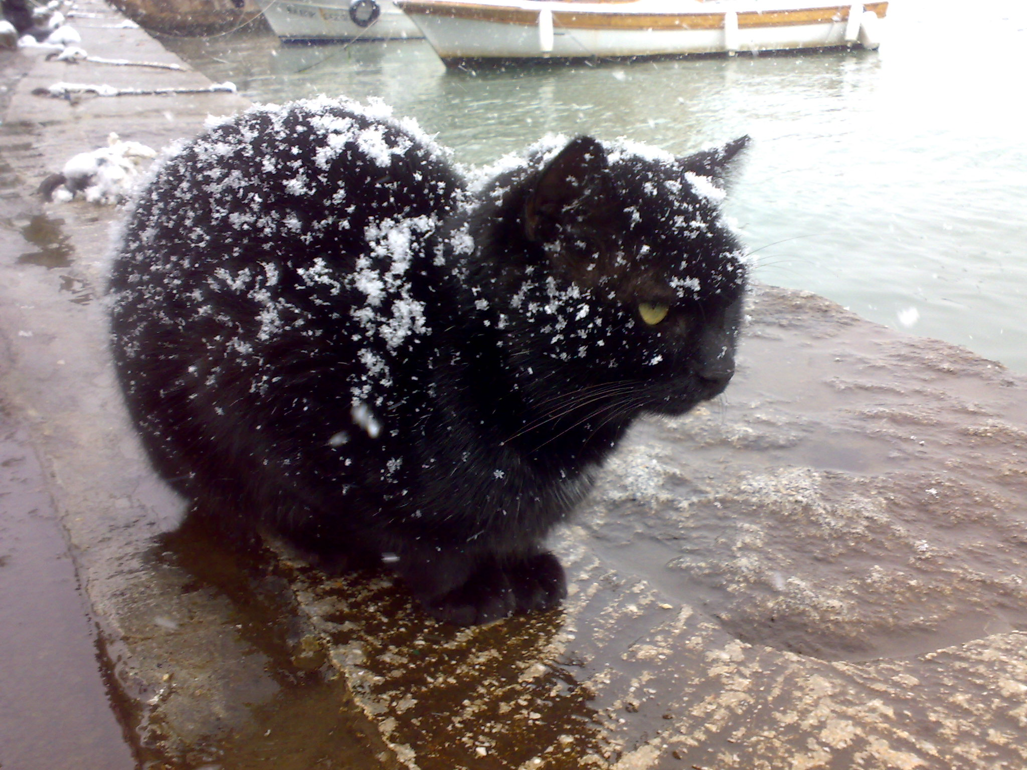 A black cat in snowy weather, Istanbul, Turkey.